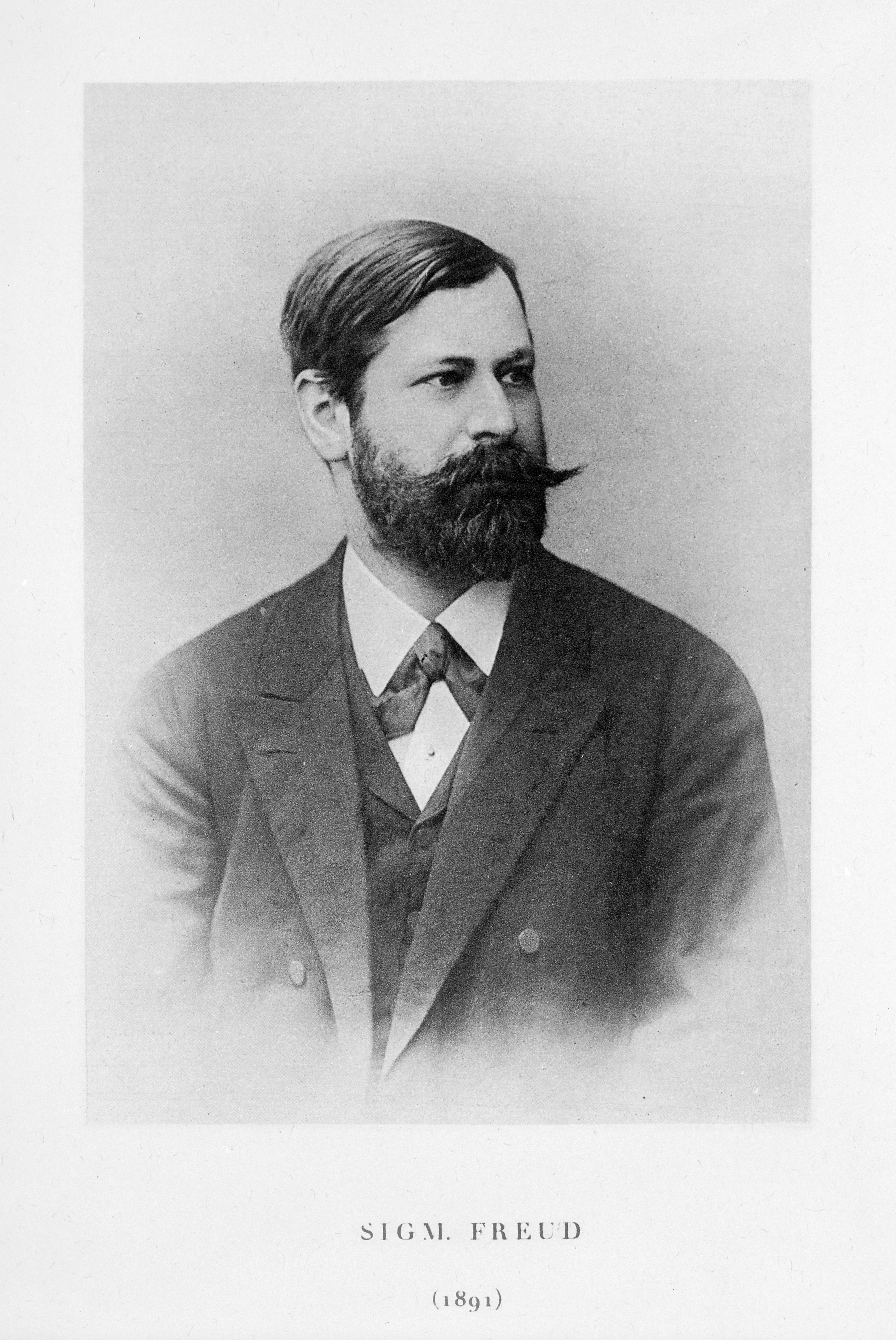 Front.: portrait of Freud in 1891 Wellcome Images Keywords: Psychoanalysis